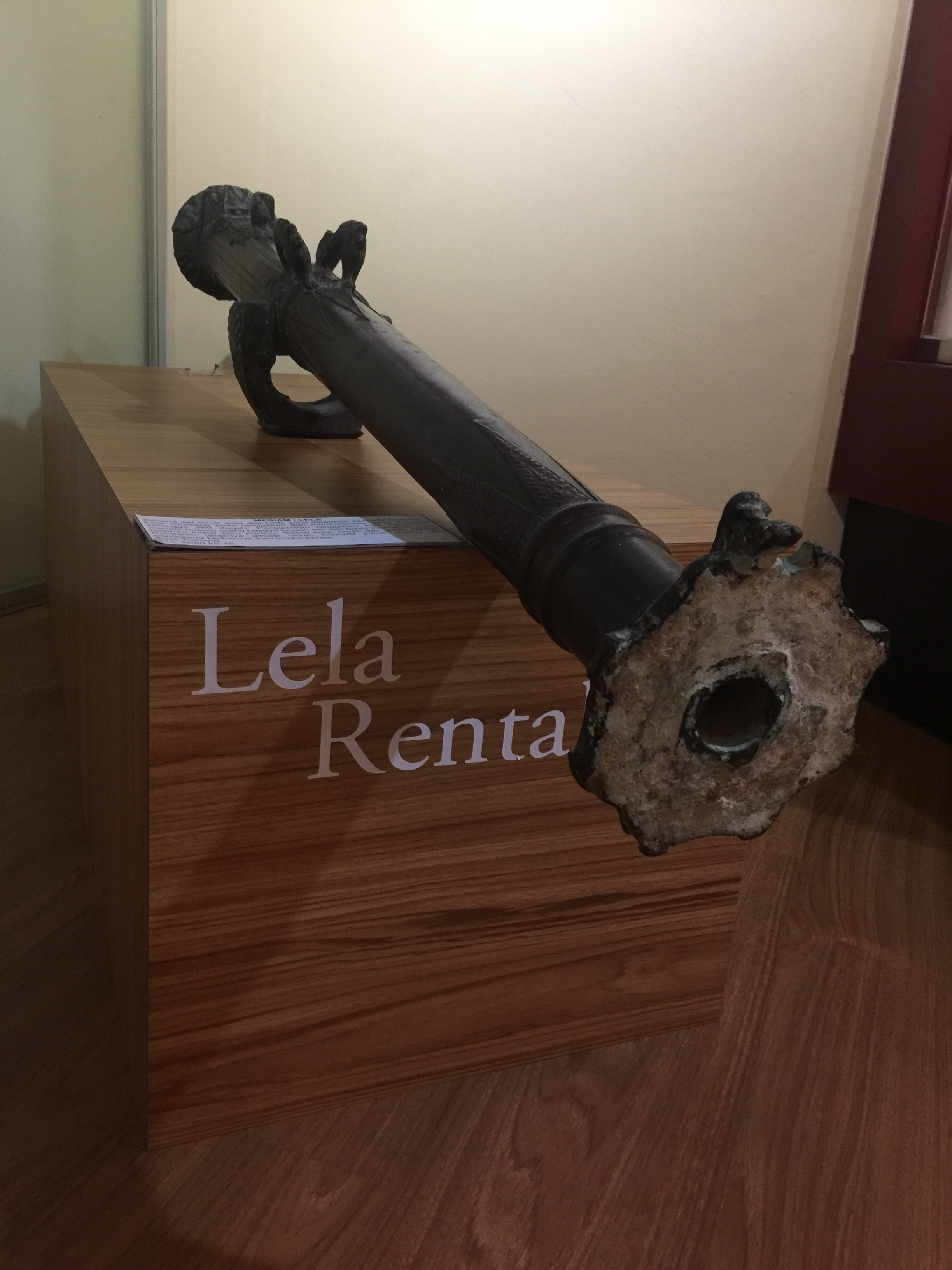 Lela Rentaka cannon originated from Pahang, 19th century